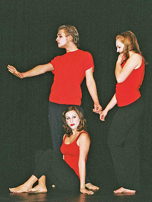 theateraufführung am arndt-gymnasium dahlem